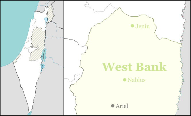 Map of the approximate area of the Shomron Regional Council in the West Bank. For location maps.